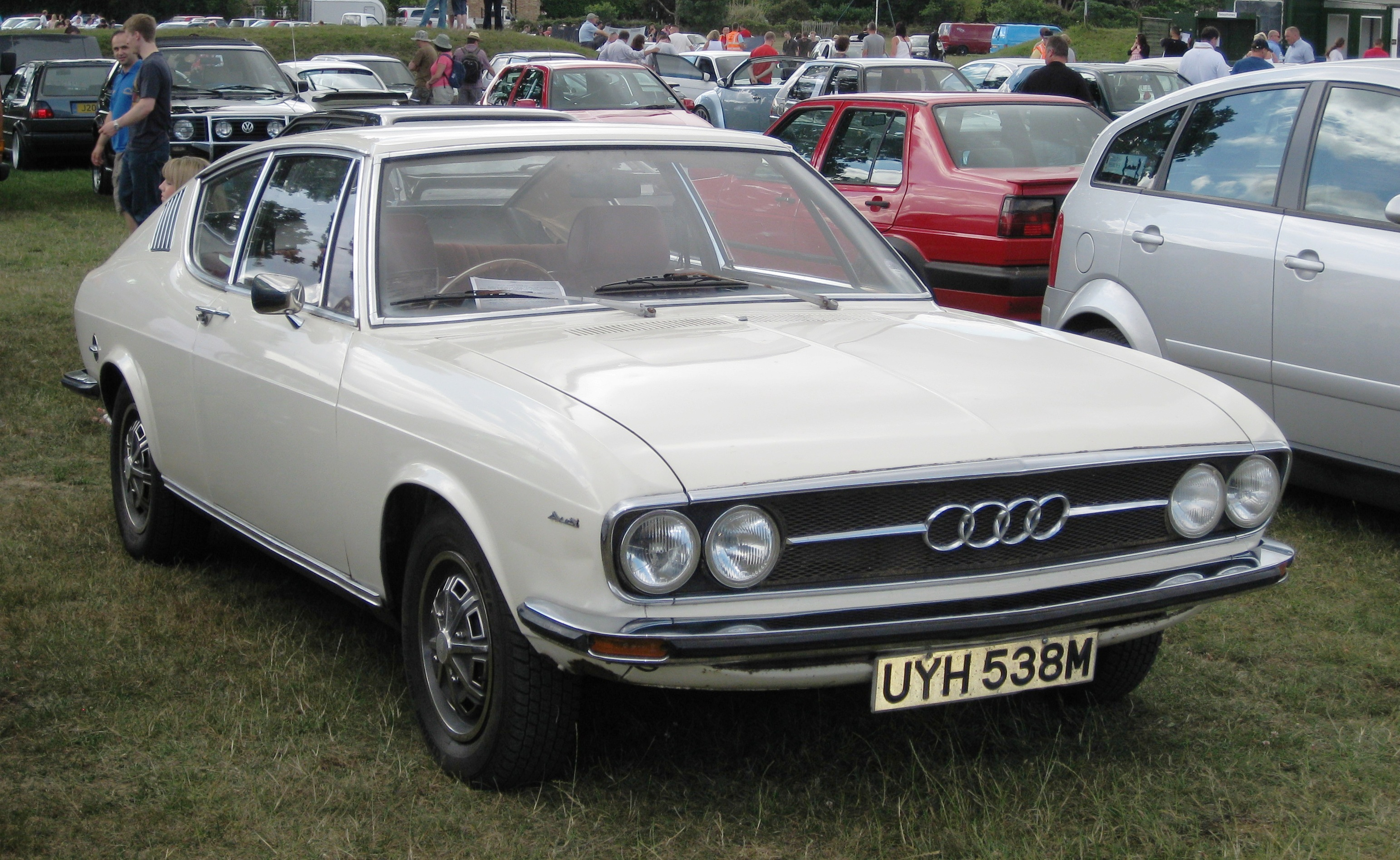 1973 Audi 100 C1 Coupé at Beaulieu German Autofest